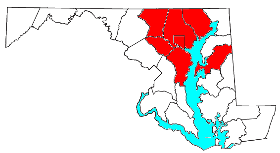 Locator map of the Baltimore-Towson Metropolitan Statistical Area in the northern part of the U.S. state of Maryland.